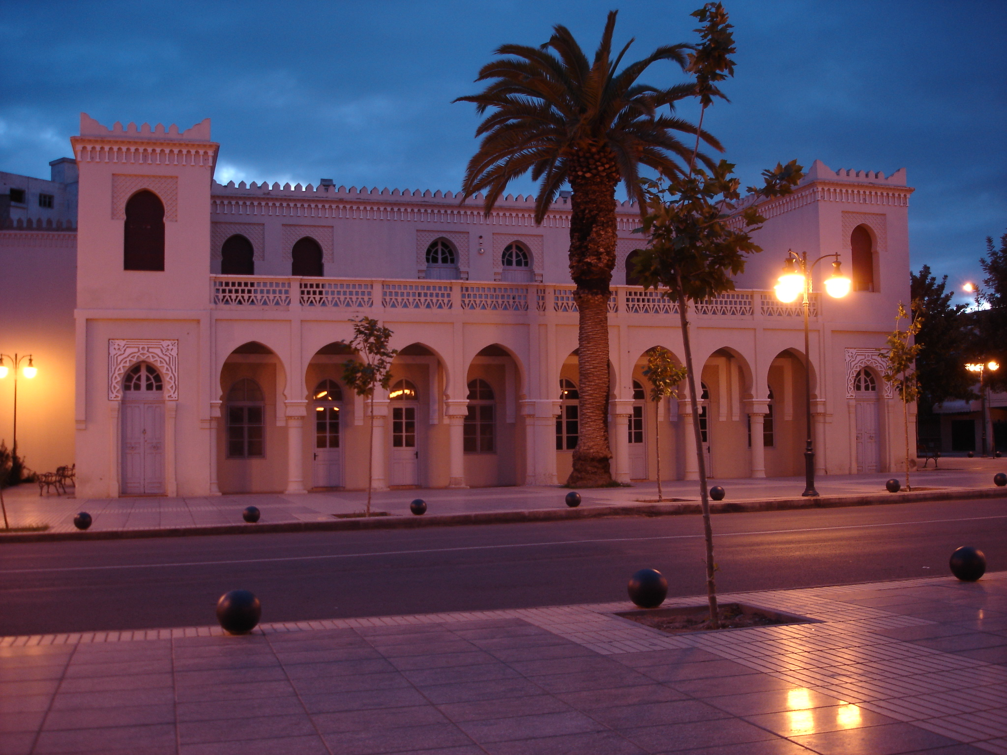 Omar Ben Adbdelaziz high school of Oujda in region Oriental region of Morocco.